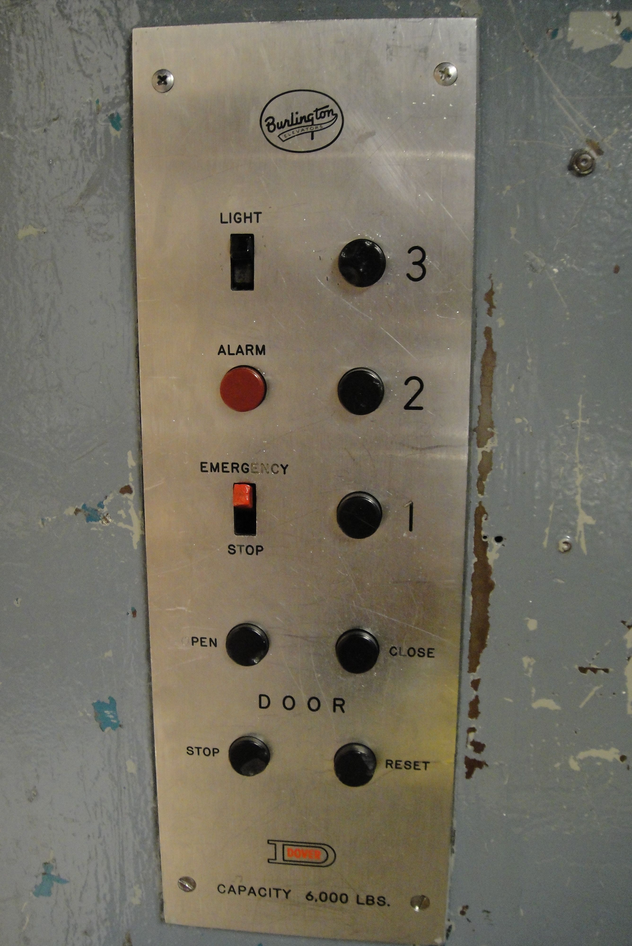 This is the controls on a dover elevator